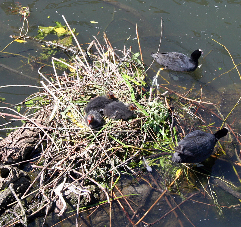 Male and female Eurasian Coot with nest and three hatchlings